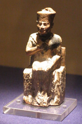 Statue of Khufu in the Cairo Egyptian Museum (JE 36143)